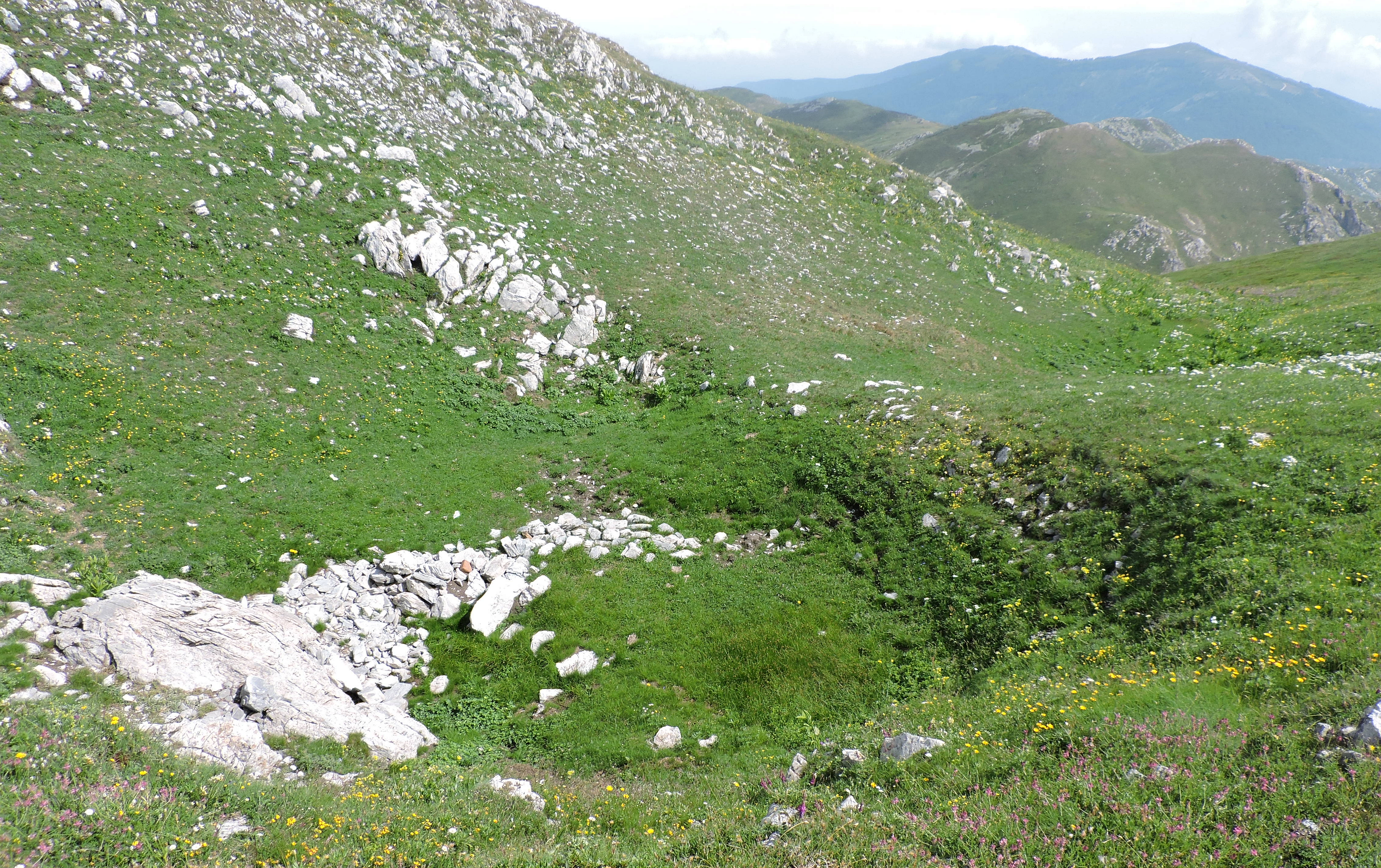 A ponor on Monte Antoroto (Ligurian Alps)